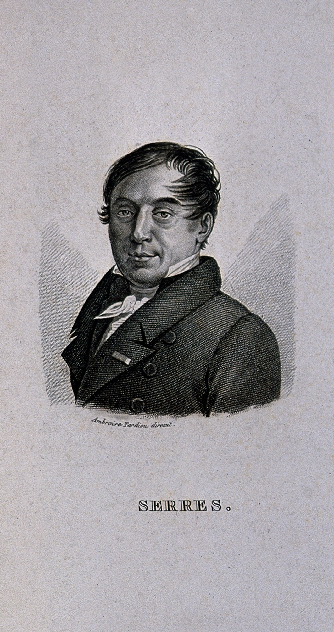 Antoine Étienne Renaud Augustin Serres. Stipple engraving by A. Tardieu, 1823, after himself. Iconographic Collections Keywords: Antoine-Etienne-Renaud-Augustin Serres